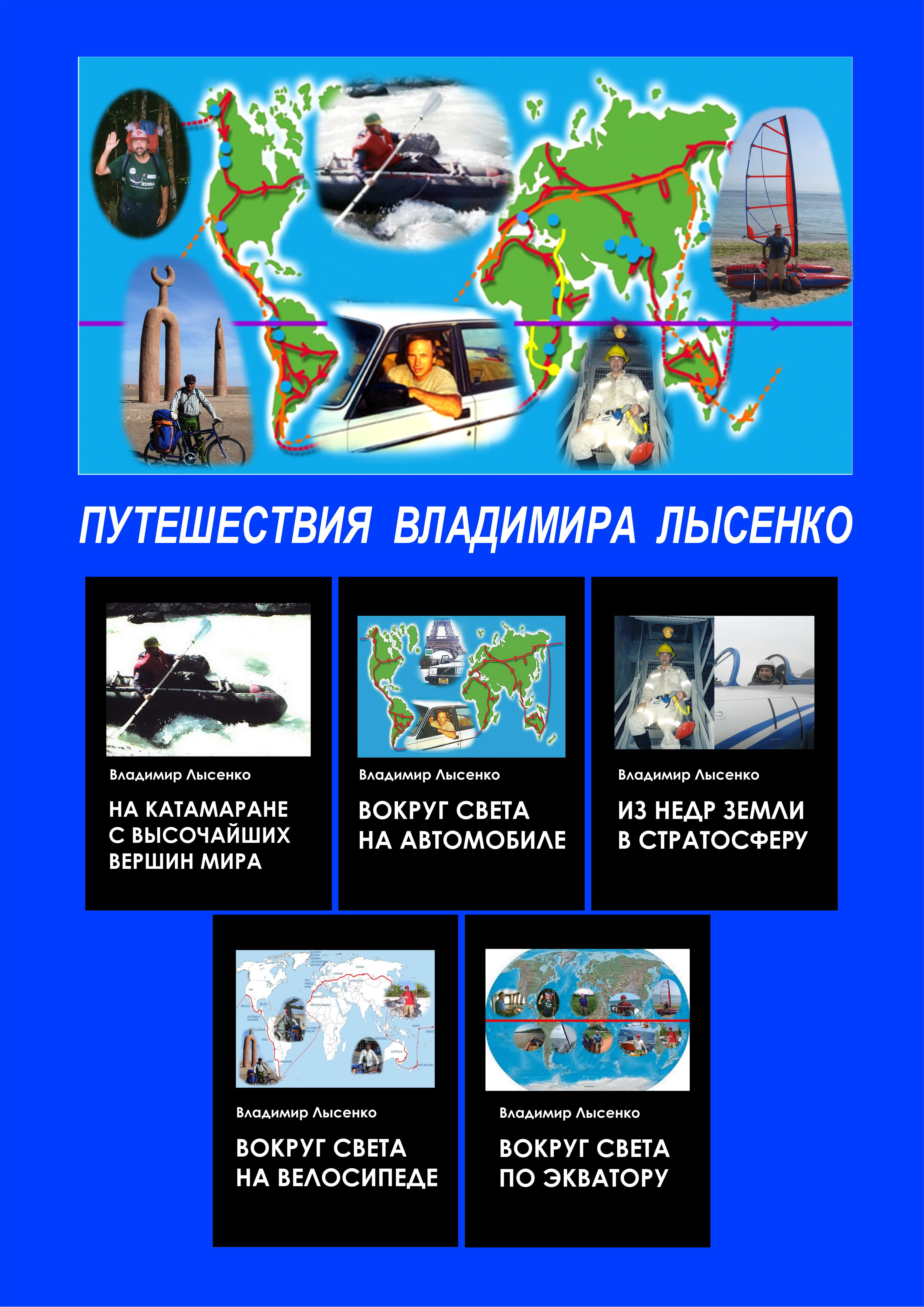 Book “Vladimir Lysenko's travels” (in Russian) by Vladimir Lysenko